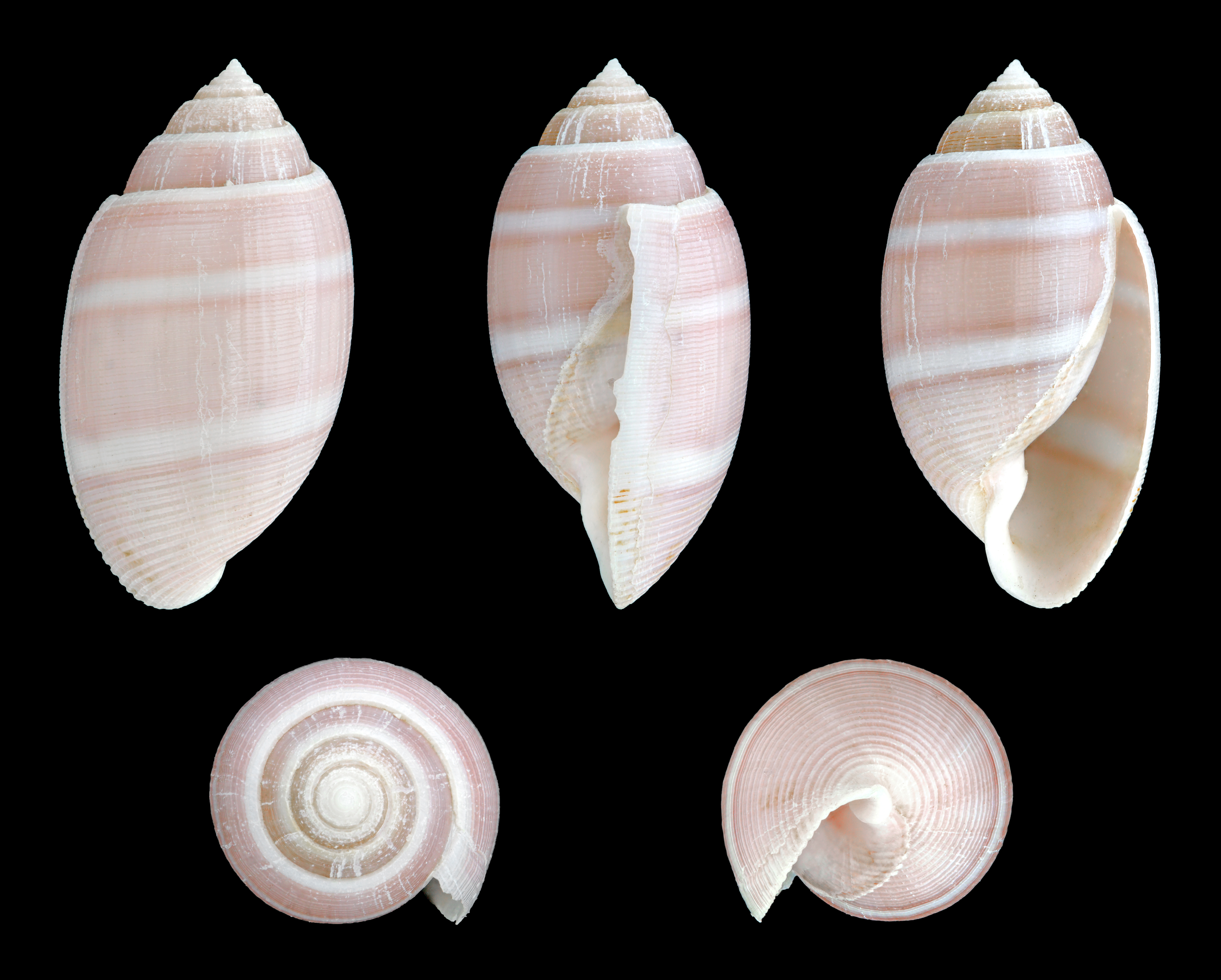 Acteon tornatilis (Linné, 1758); Lathe Acteon; Length 1.9 cm; Originating from St. Michel-en-Greve, Bretagne, France; Shell of own collection, therefore not geocoded. Dorsal, lateral (right side), ventral, back, and front view.